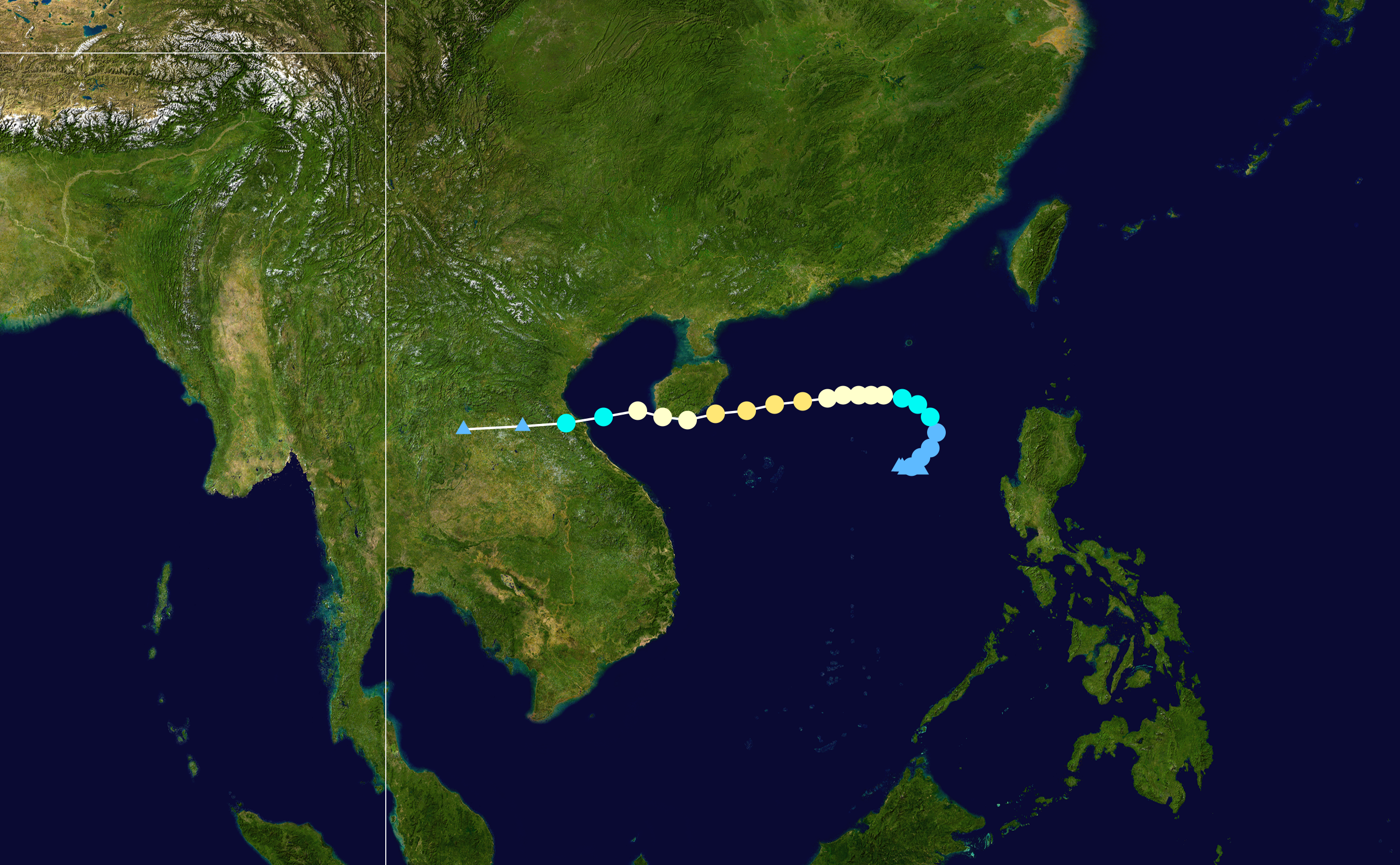 Track map of Typhoon Wukong of the 2000 Pacific typhoon season. The points show the location of the storm at 6-hour intervals. The colour represents the storm's maximum sustained wind speeds as classified in the Saffir–Simpson scale (see below), and the shape of the data points represent the nature of the storm, according to the legend below. Saffir–Simpson scale Tropical depression≤38 mph≤62 km/h Category 3111–129 mph178–208 km/h Tropical storm39–73 mph63–118 km/h Category 4130–156 mph209–251 km/h Category 174–95 mph119–153 km/h Category 5≥157 mph≥252 km/h Category 296–110 mph154–177 km/h Unknown Storm type Tropical cyclone Subtropical cyclone Extratropical cyclone / Remnant low / Tropical disturbance / Monsoon depression